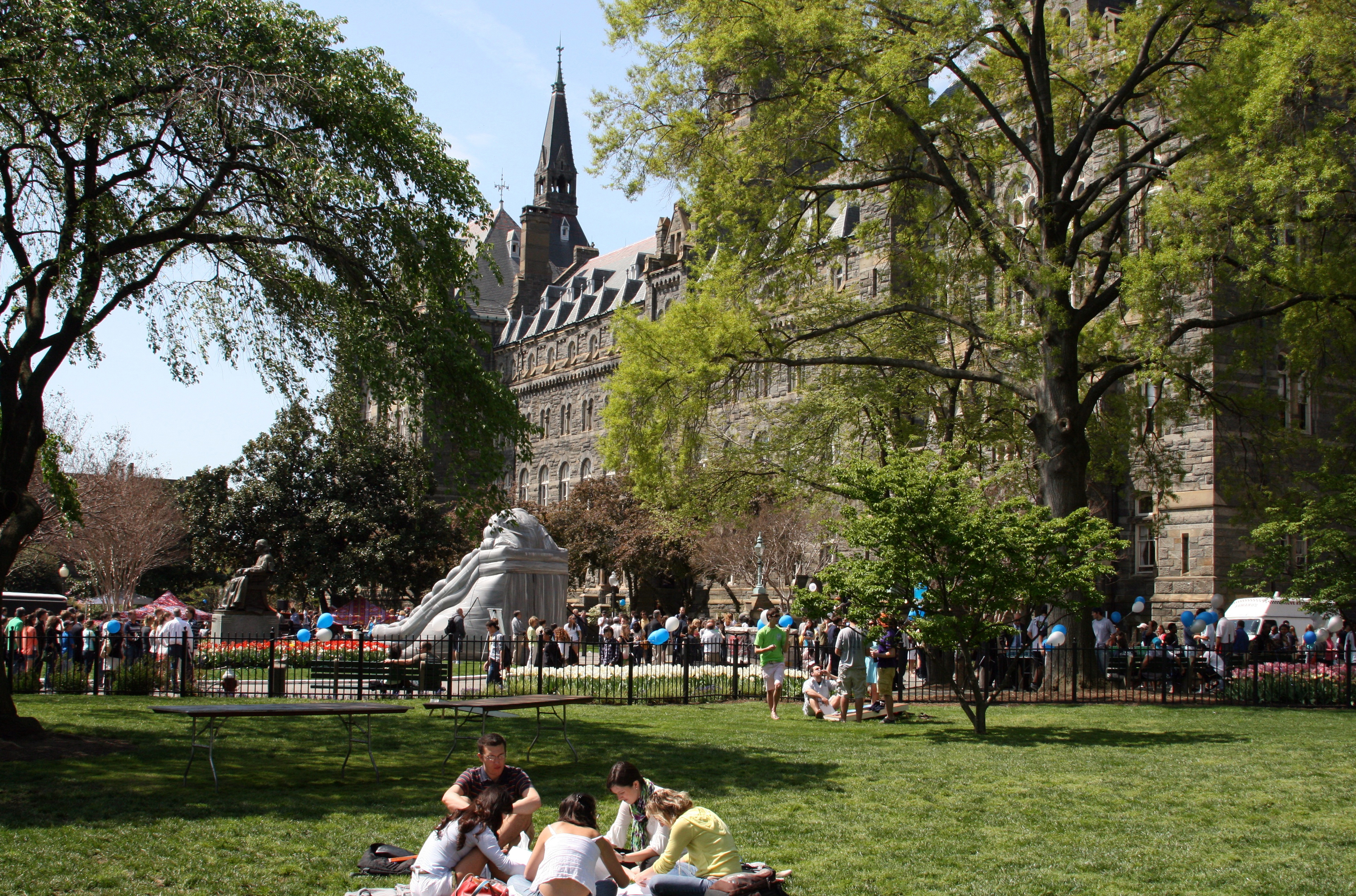 Students celebrating Georgetown Day in 2009